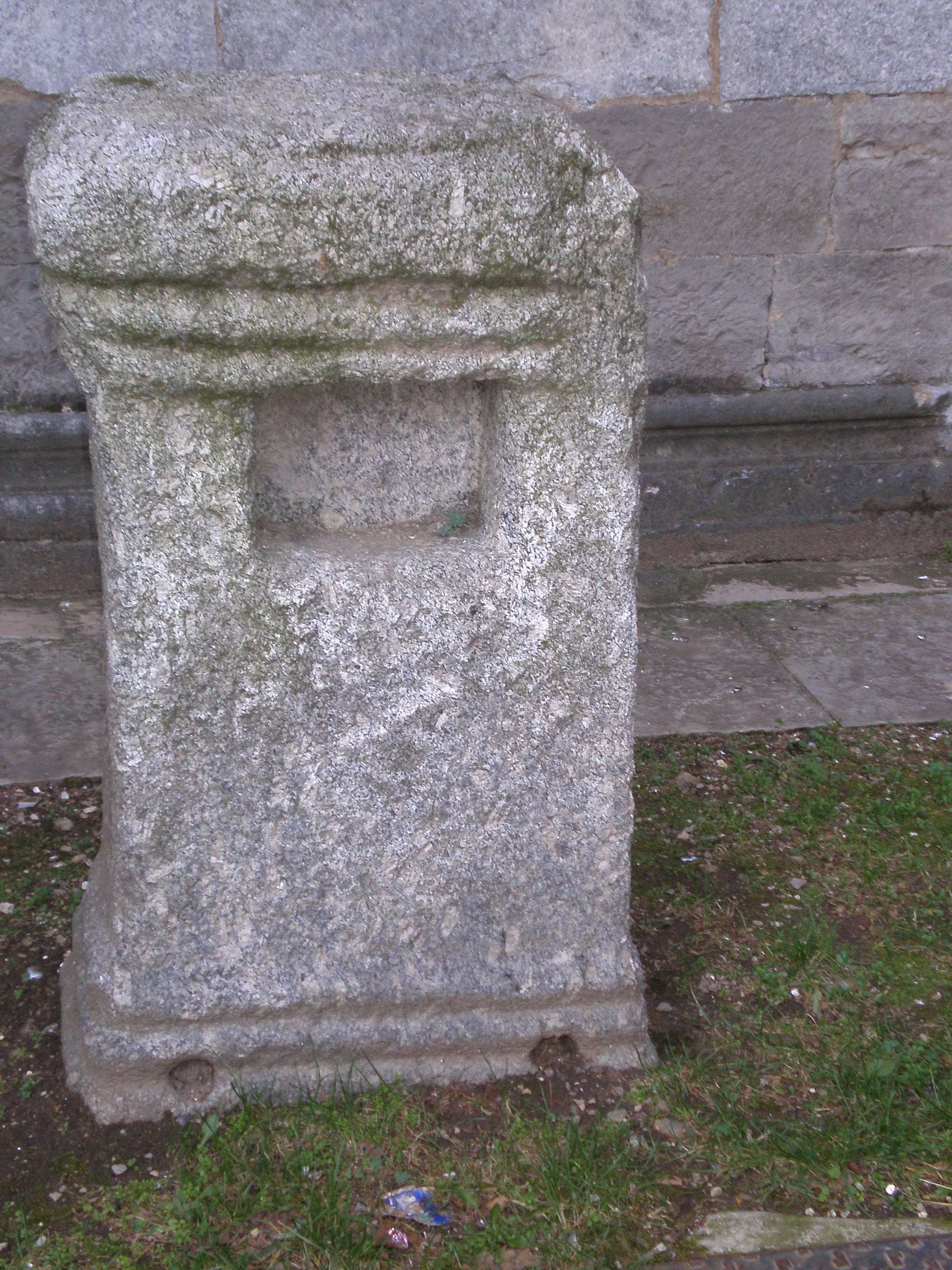 Roman tombstone near the church of Santa Maria del Tiglio in Gravedona, lake Como, Italy